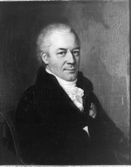 Portrait of baron Maarten van der Goes van Dirxland, Dutch minister of the Foreign Affairs, 1798-1808